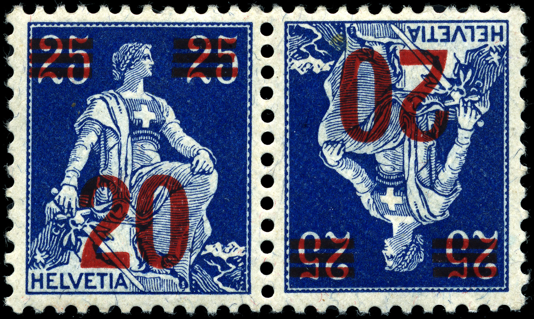 Tete-beche pair of Switzerland 20c overprint stamp of 1921